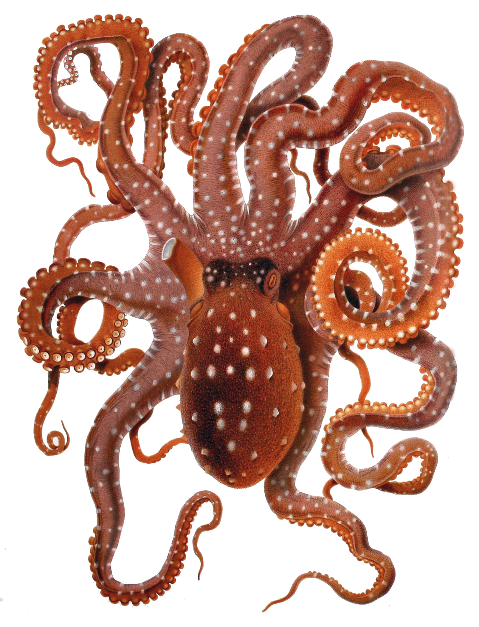 Callistoctopus macropus (White-spotted Octopus) from the Mediterranean Sea.